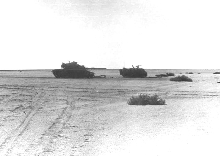 Israeli armor knocked out in the Battle at Chinese Farm during the Arab-Israeli War. From the booklet "President Nixon and the Role of Intelligence in the 1973 Arab-Israeli War." For more information, visit